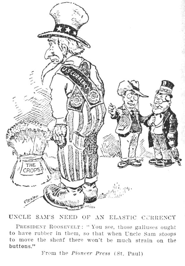 US editorial cartoon promotion elastic currency